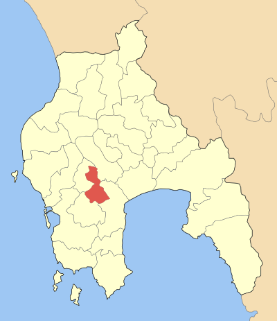 Locator map of Voufradon municipality (Δήμος Βουφράδων) at Messinia perfecture, Greece.